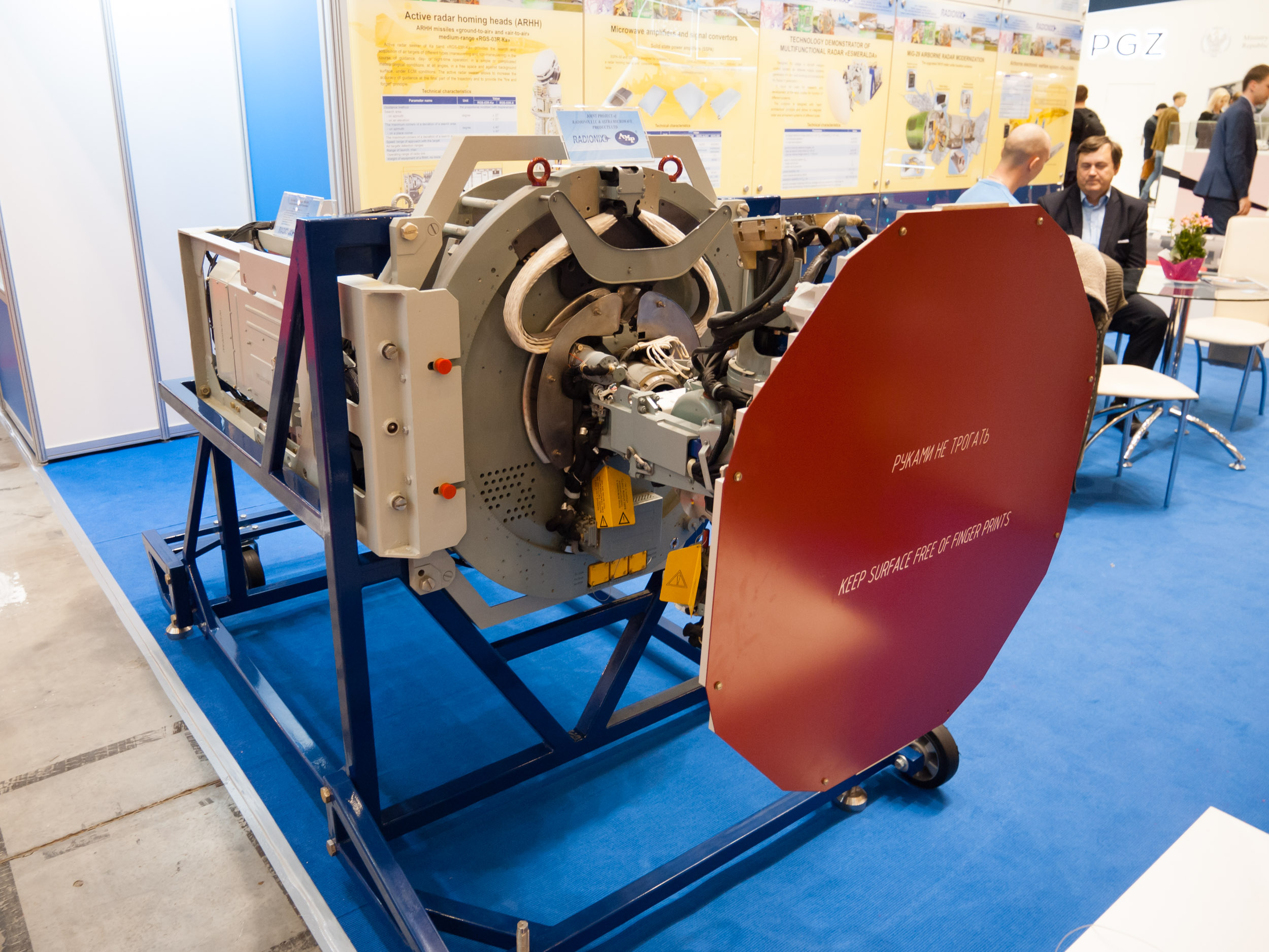 Esmeralda multifunctional radar by Radionix, 'Zbroya ta Bezpeka' military fair, Kyiv, Ukraine, 2018